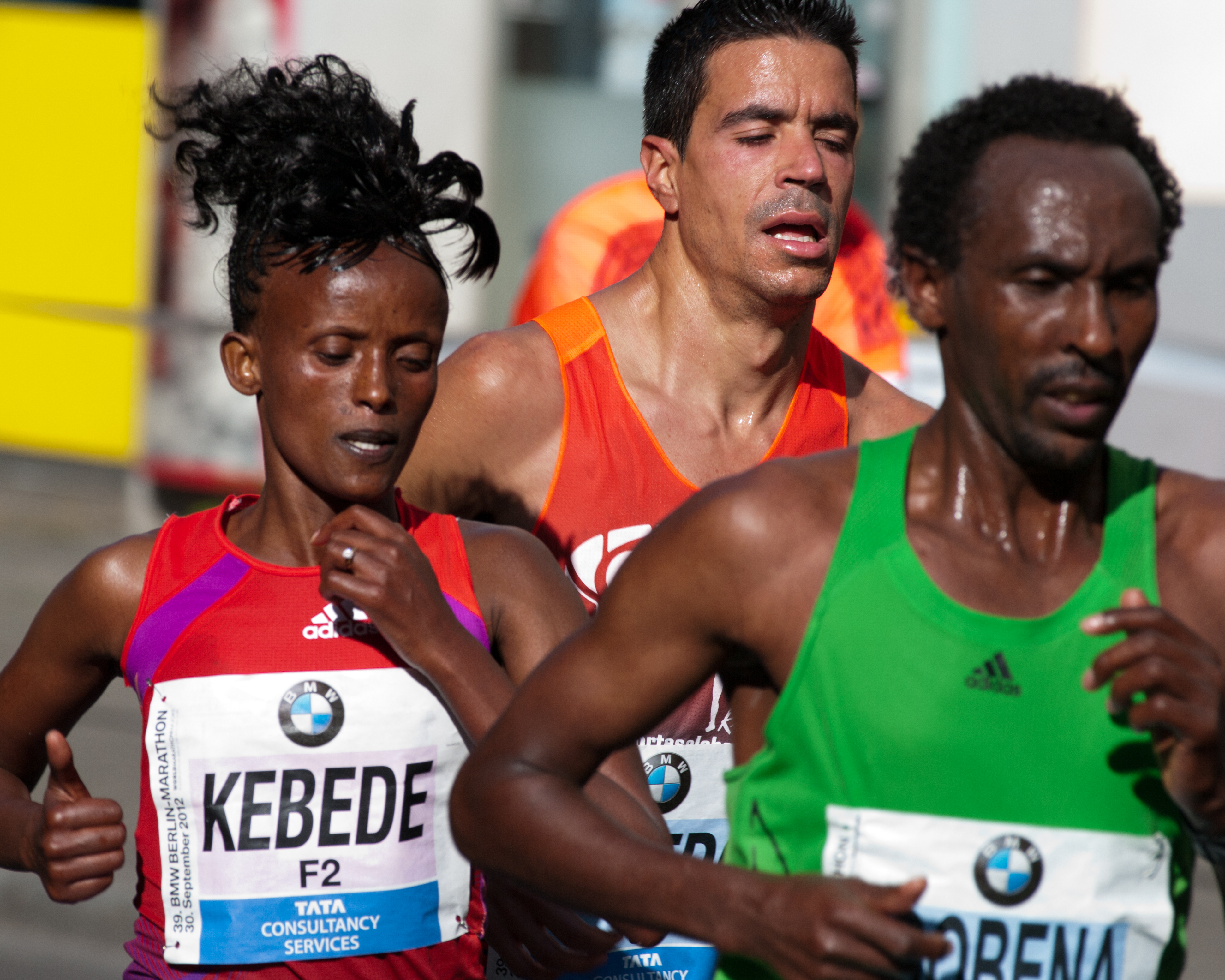 Ethiopian runner Aberu Kebede at the Berlin Marathon 2012. Here on Bülowstraße, between Kilometers 36 and 37.